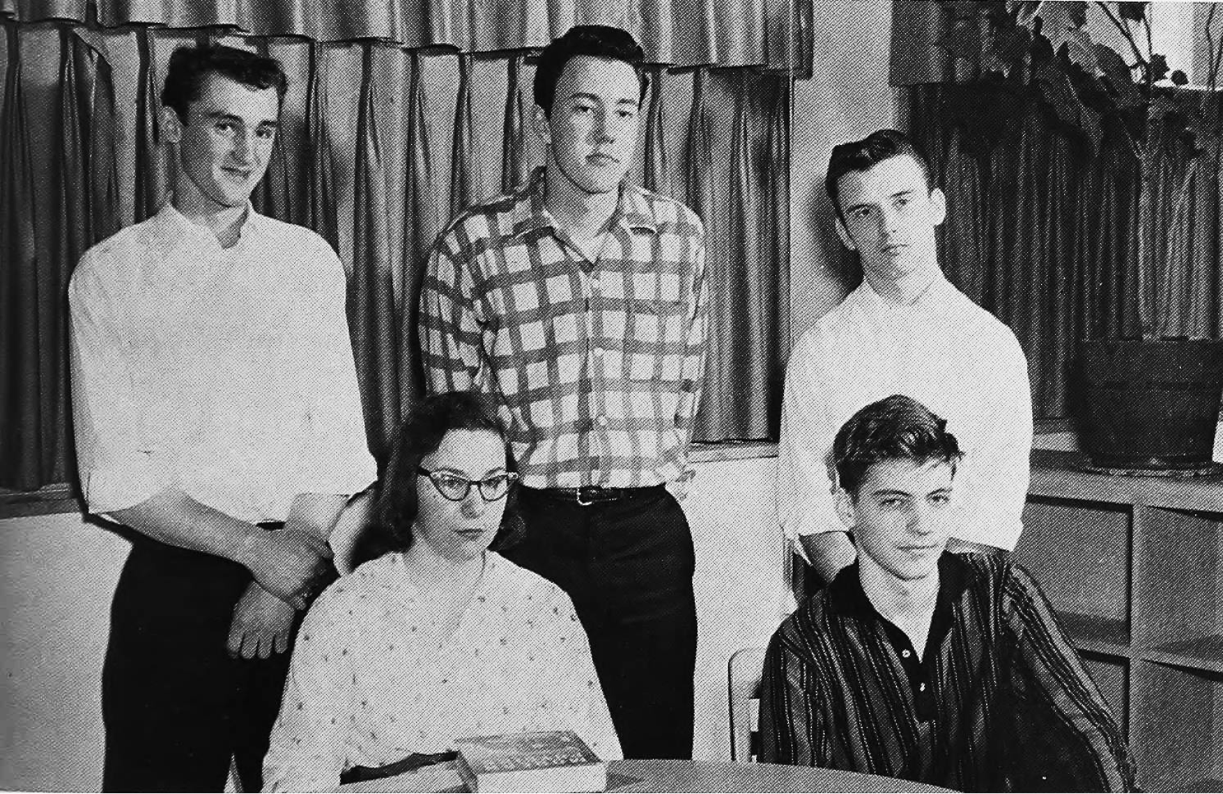 The five merit scholarship finalists from our school are Jerry De Runtz, Fred Topel, Bill Widlacki, Gail Burgess, and Ted Kaczynski.